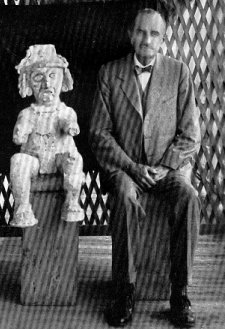 Thomas Gann with stucco idol he found at Tulum, 1920s.